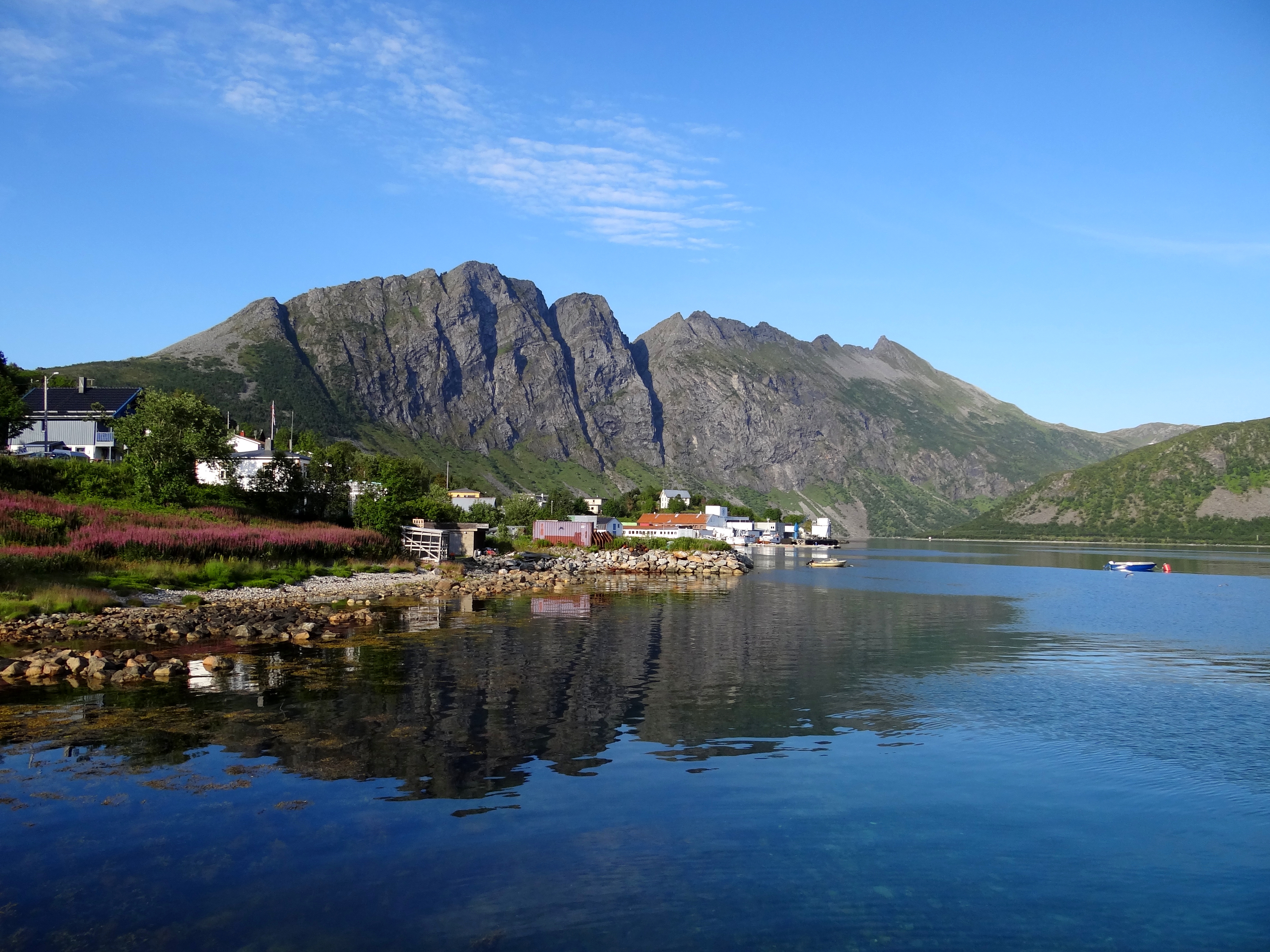 Torsken village seen from west to east, with Skipstind in the background.